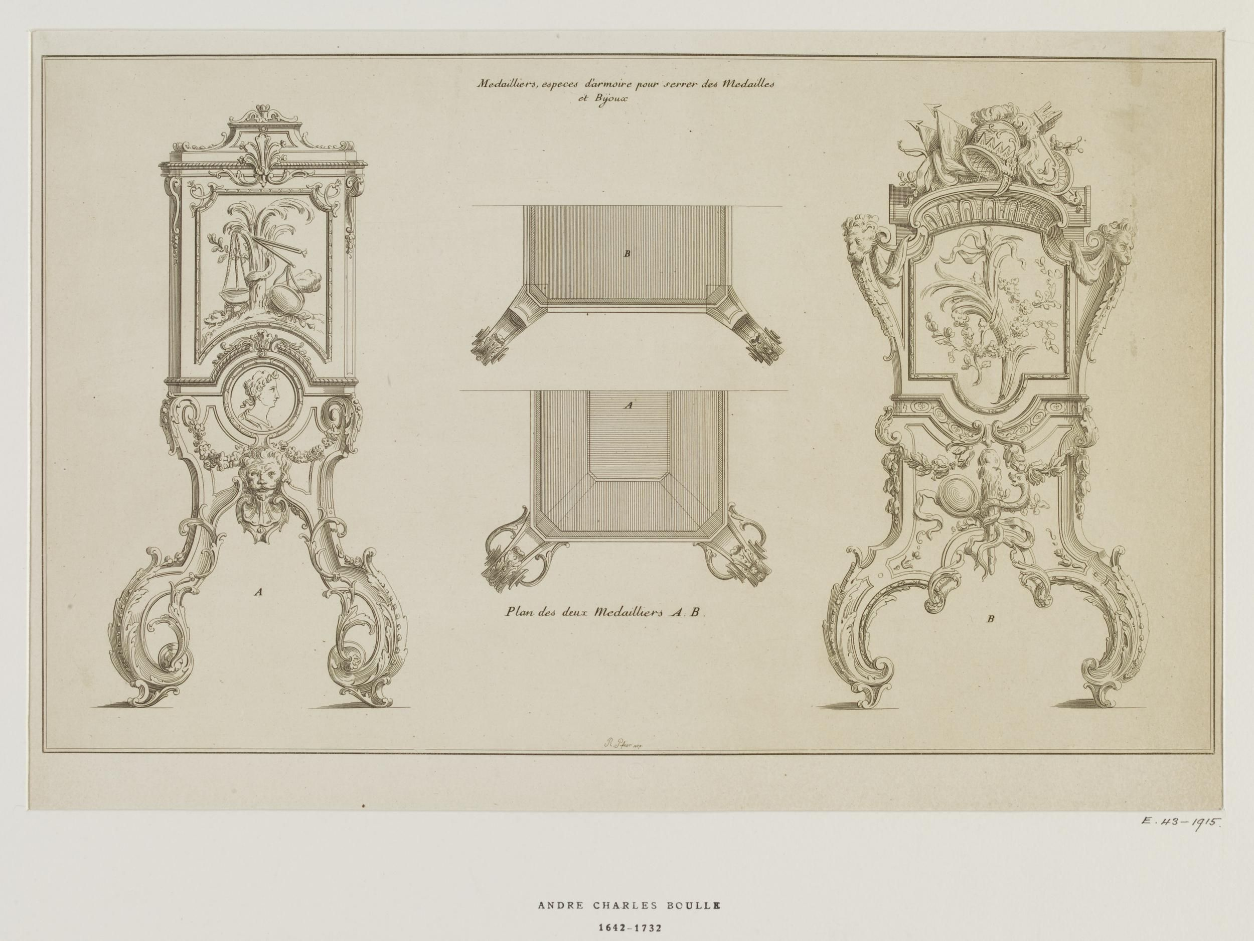 Victoria and Albert Museum Design for medal cabinet c.1720 André-Charles Boulle